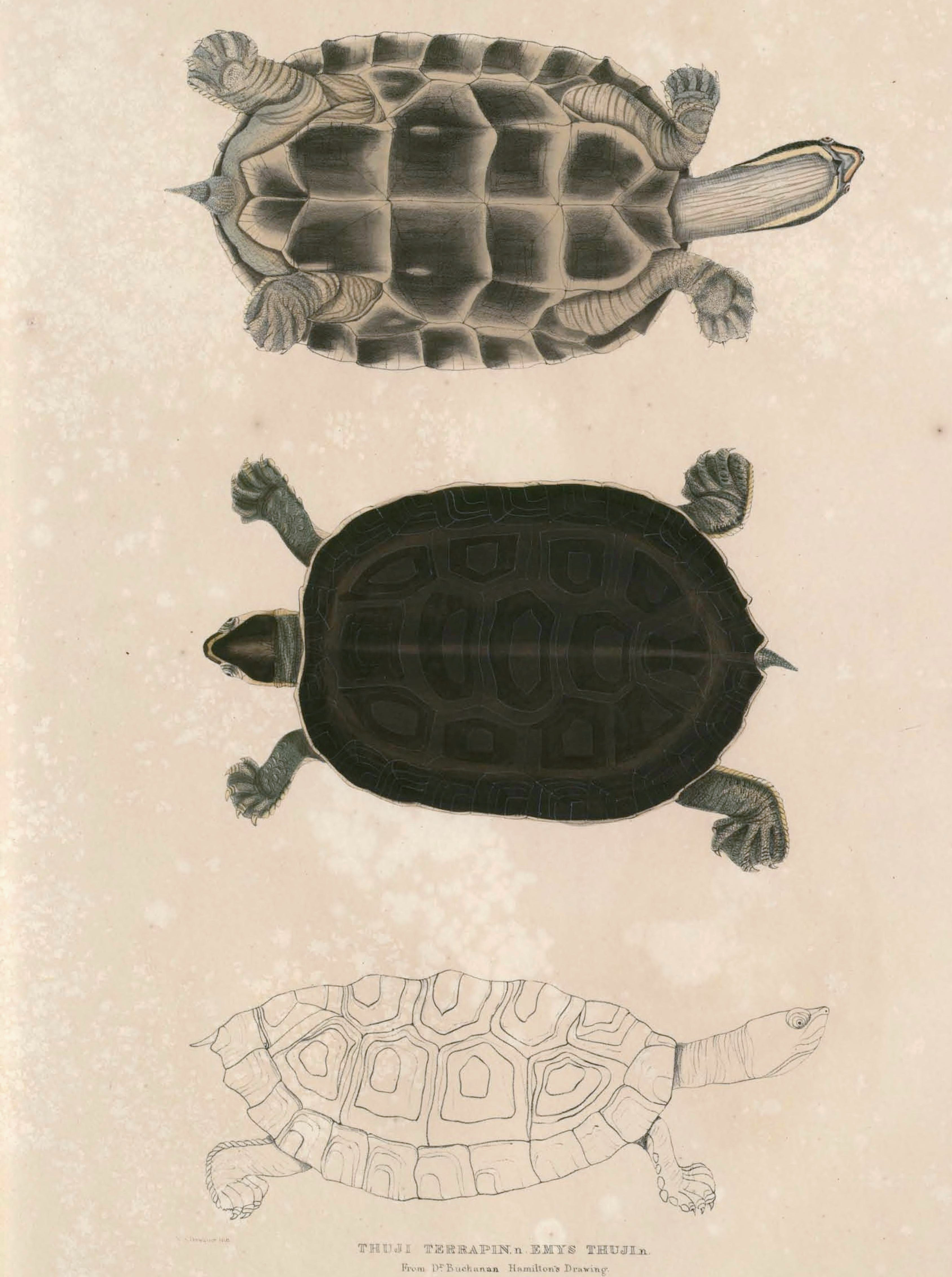 « Emys thuji » = Hardella thurjii (Brahminy river turtle)